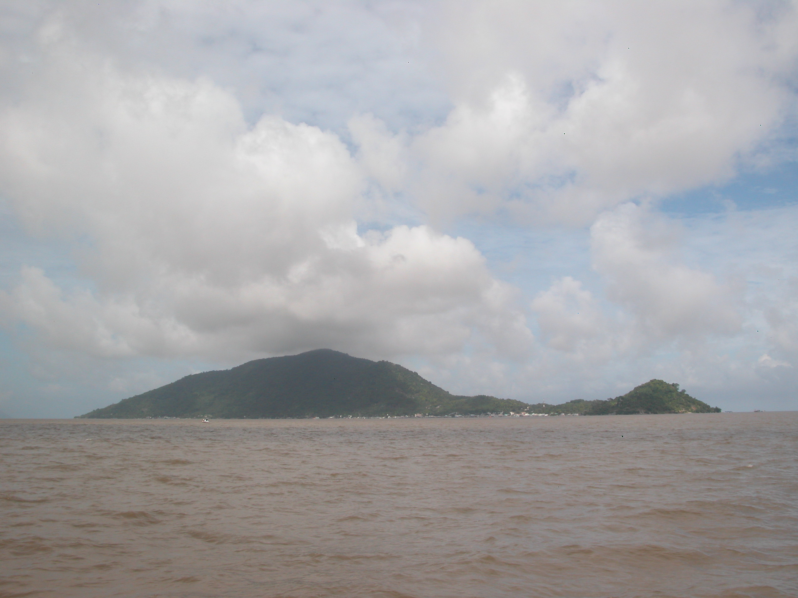 Hòn Tre Islet, Kien Giang Province.